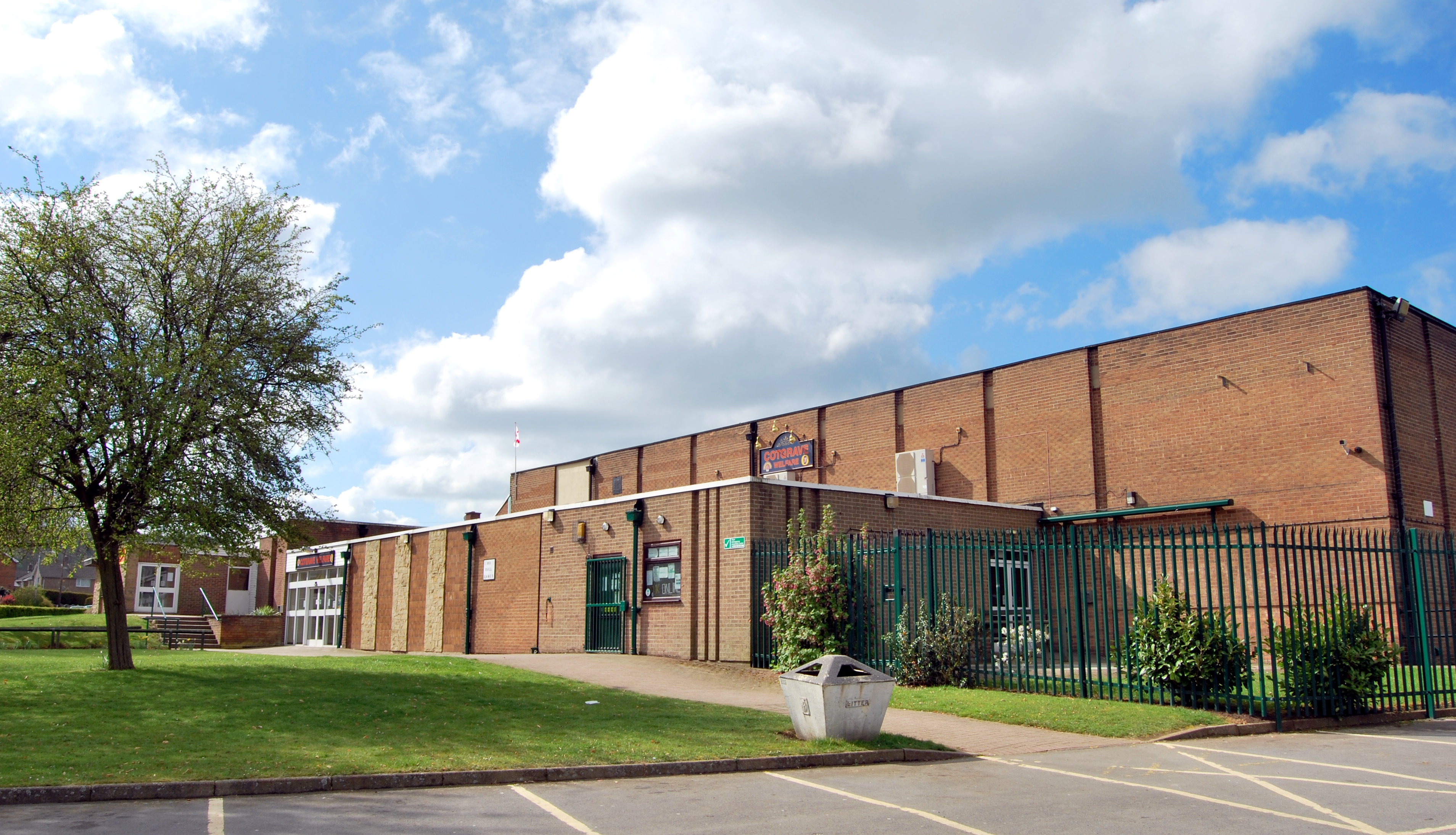 The welfare buildings at Cotgrave, Nottinghamshire.